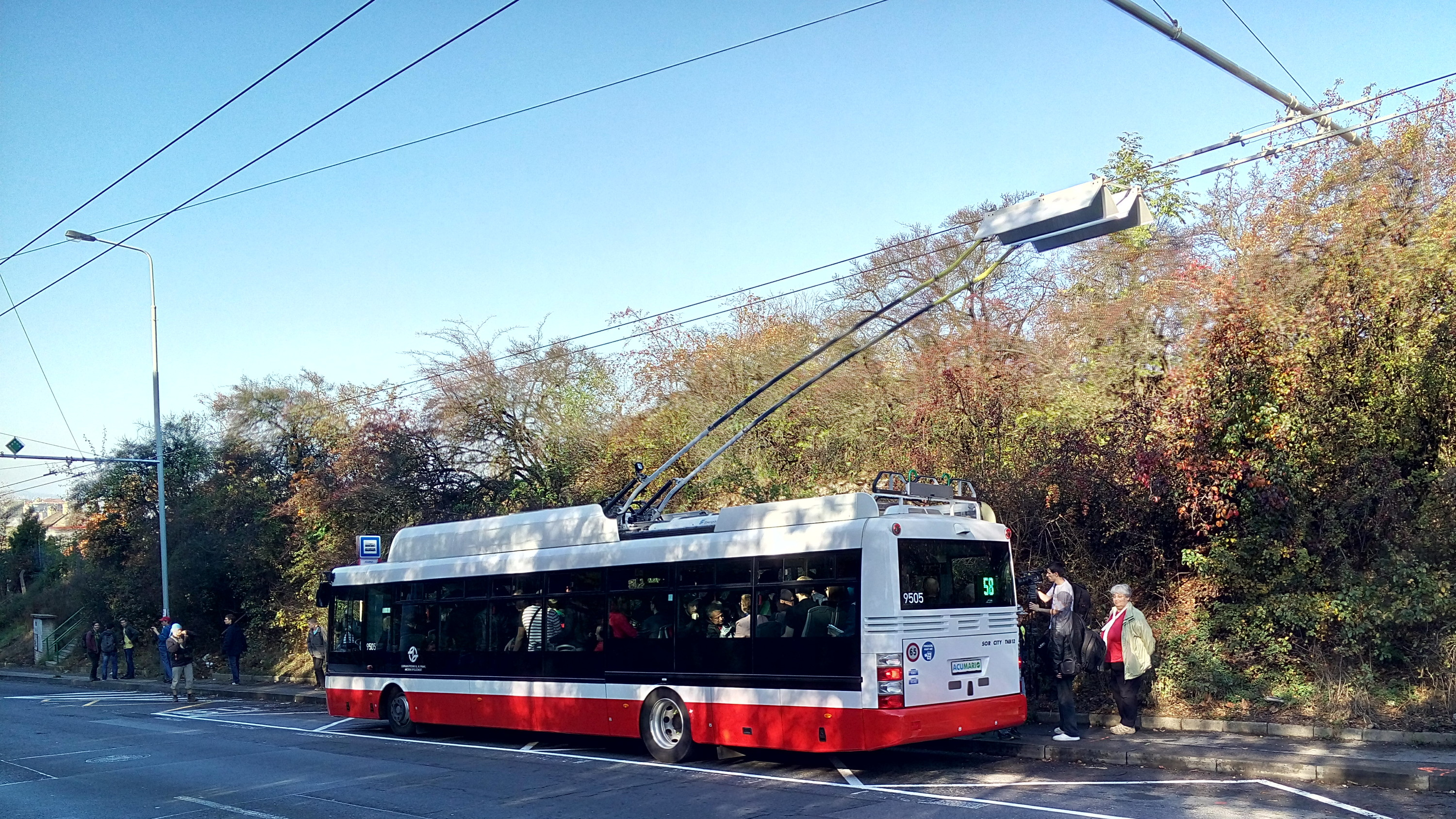 A prototype of SOR TNB 12 AcuMario trolleybus equipped with additional batteries connected to the testing line on Prosecká street the first day of public rides in Prague.